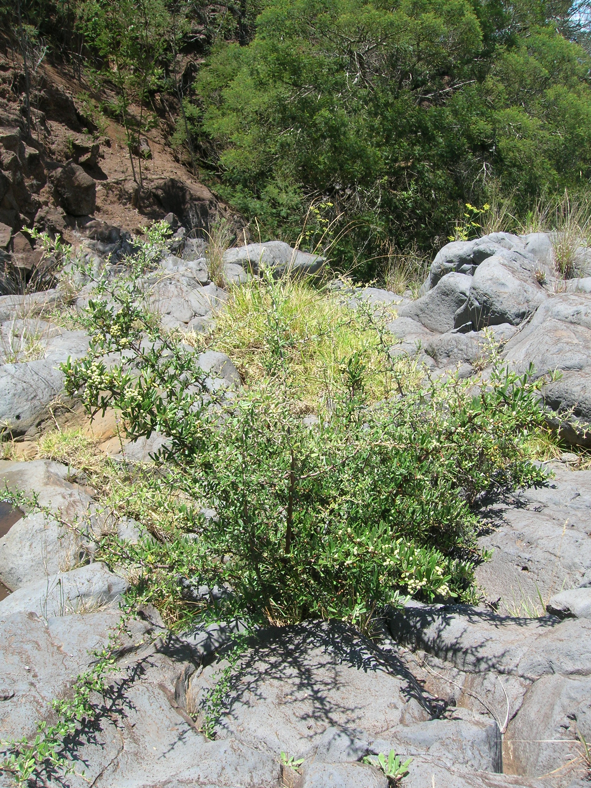 Pyracantha angustifolia (habit). Location: Maui, Keahuaiwi Gulch